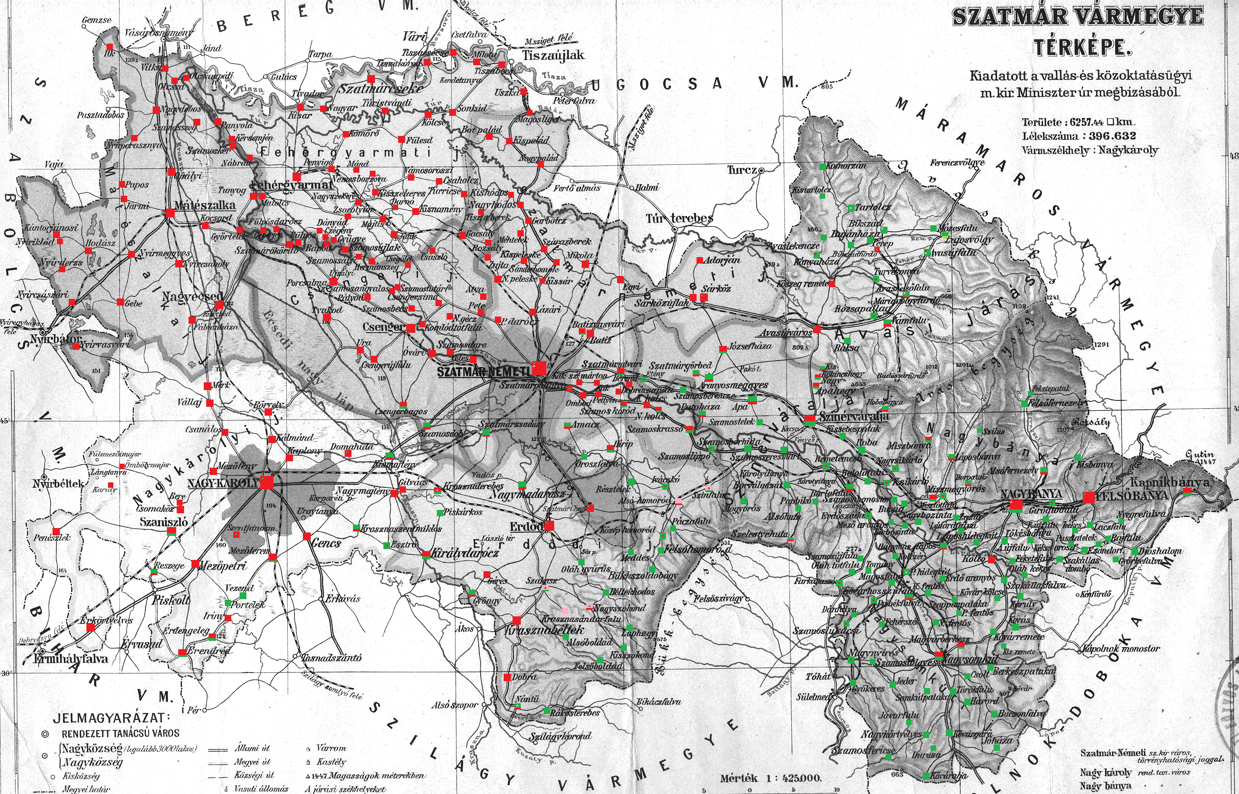 Ethnic map of the county (with data of the 1910 census). Key: red - Hungarians; dark green - Romanians; pink - Germans. Coloured dots in plain rectangles imply the presence of smaller minority populations (generally more than 100 people or 10%). Multicoloured rectangles imply cities and villages with multi-ethnic populations with the order of the stripes following the ethnic composition of the settlement.